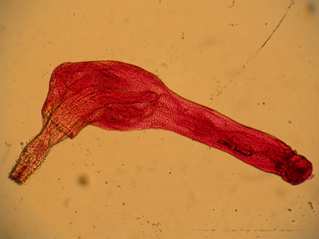 A photomicrograph of the acanthocephalan Corynosoma wegeneri.